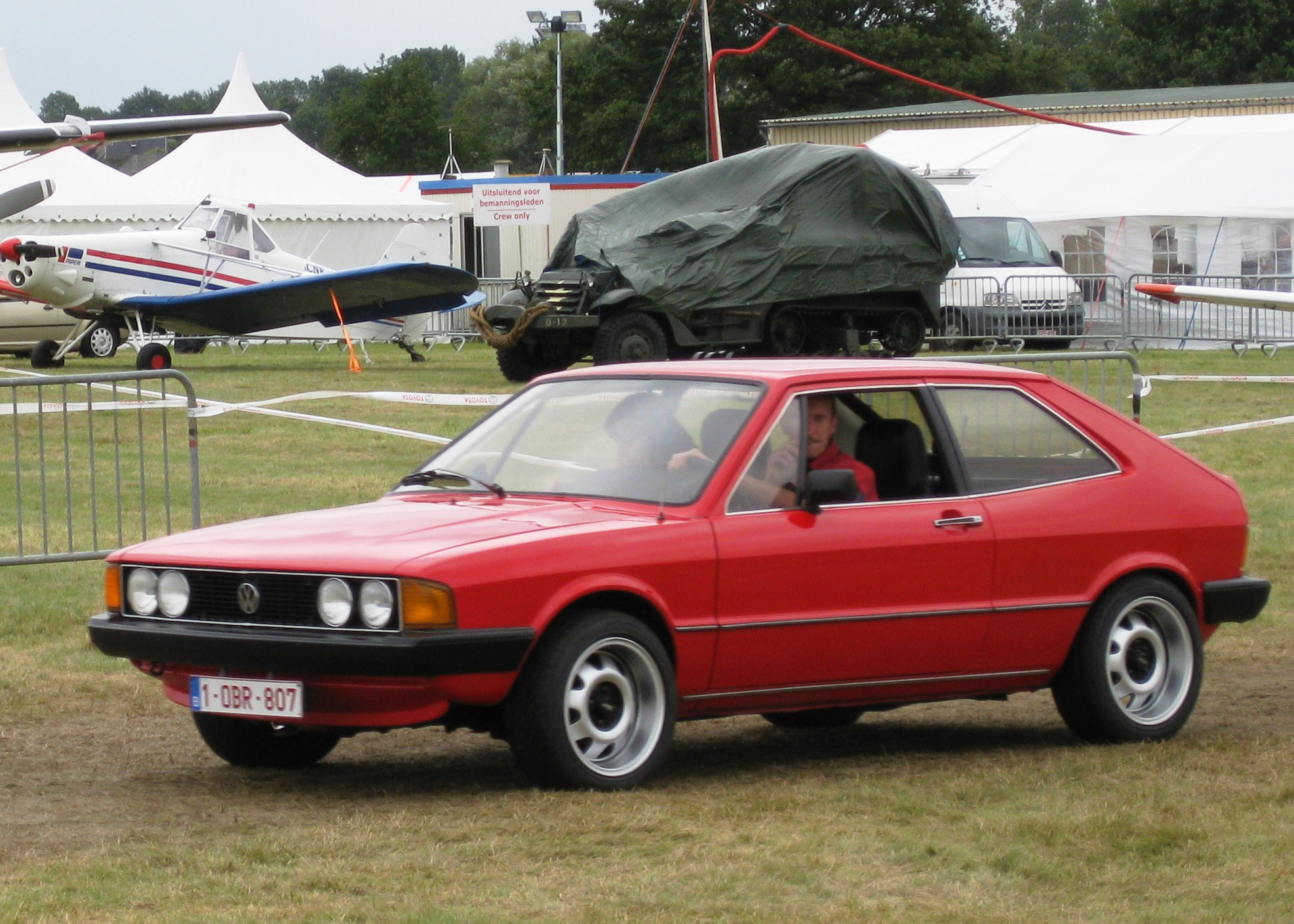 Volkswagen Scirocco I (post facelift)